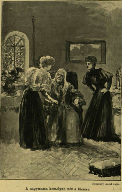 Illustration from Neogrády Antal